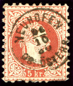 5 kreuzer KK circle cancelled at Neuhofen (Upper Austria) in 1880. Klein type gfj (20 points).